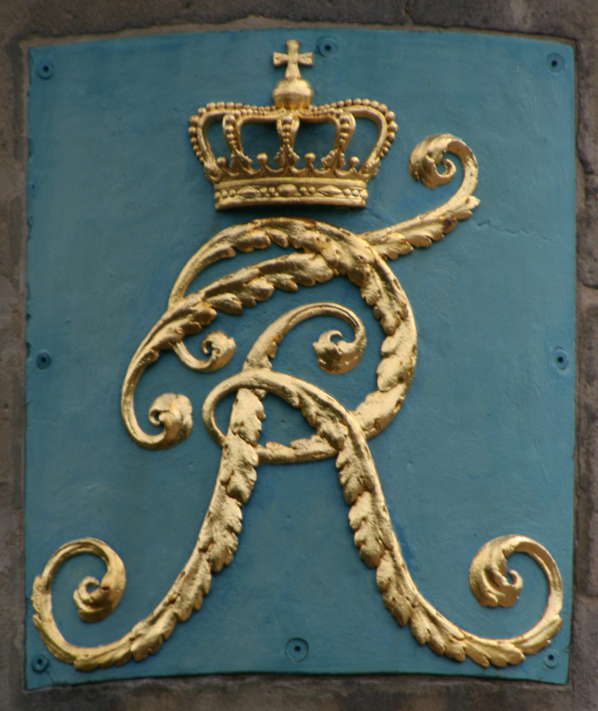 The monogram of King Frederick I. of Württemberg on the 1810 bridge across the river Jagst in Dörzbach-Hohebach